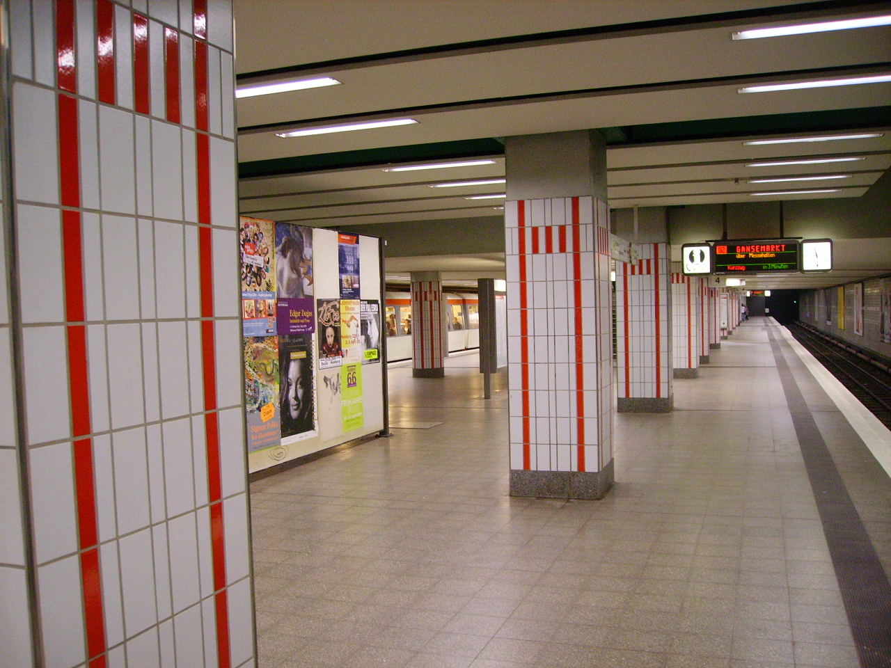 Platform of the U2 line at Schlump station in 2009.